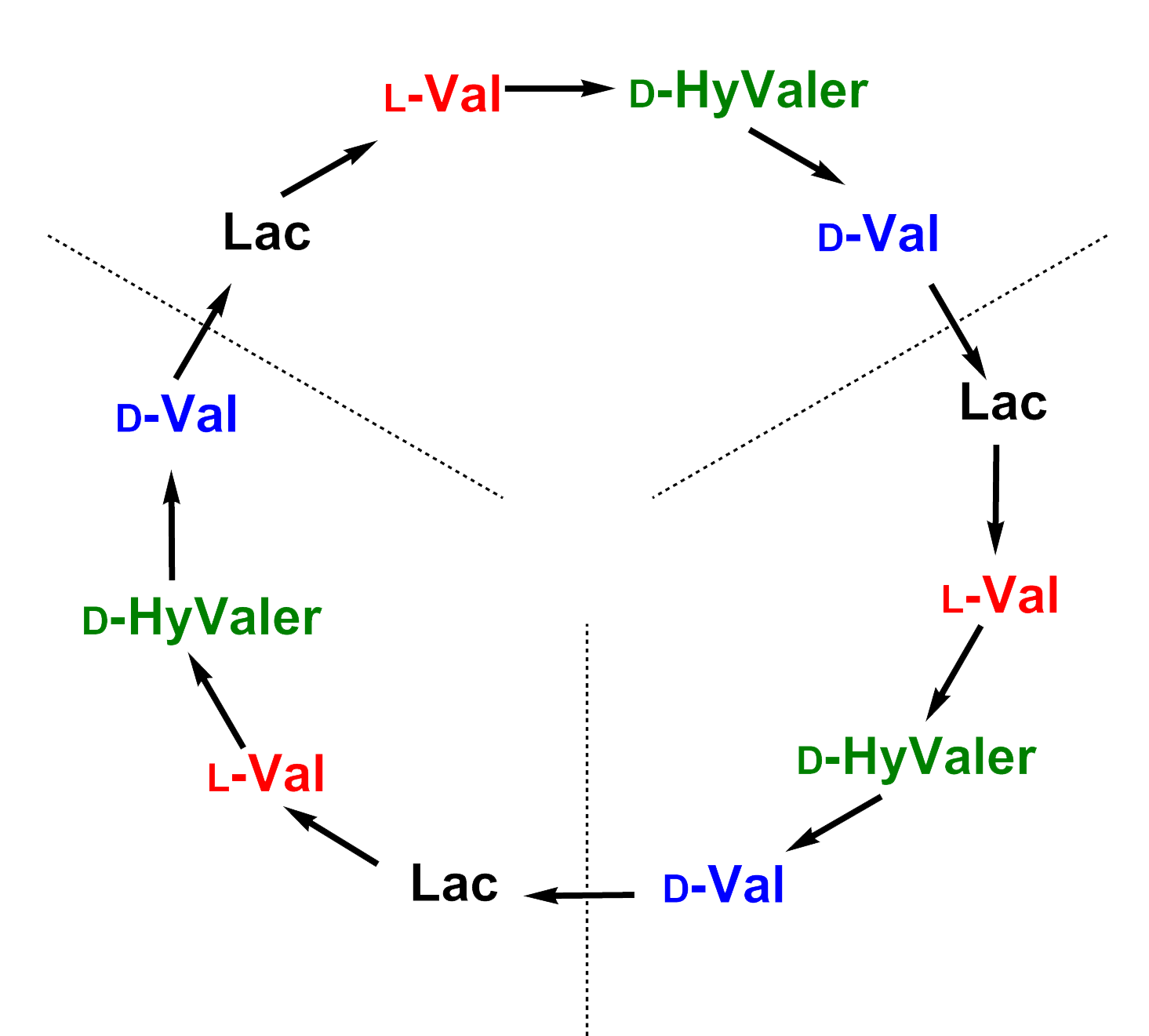 Scheme of valinomycin molecule